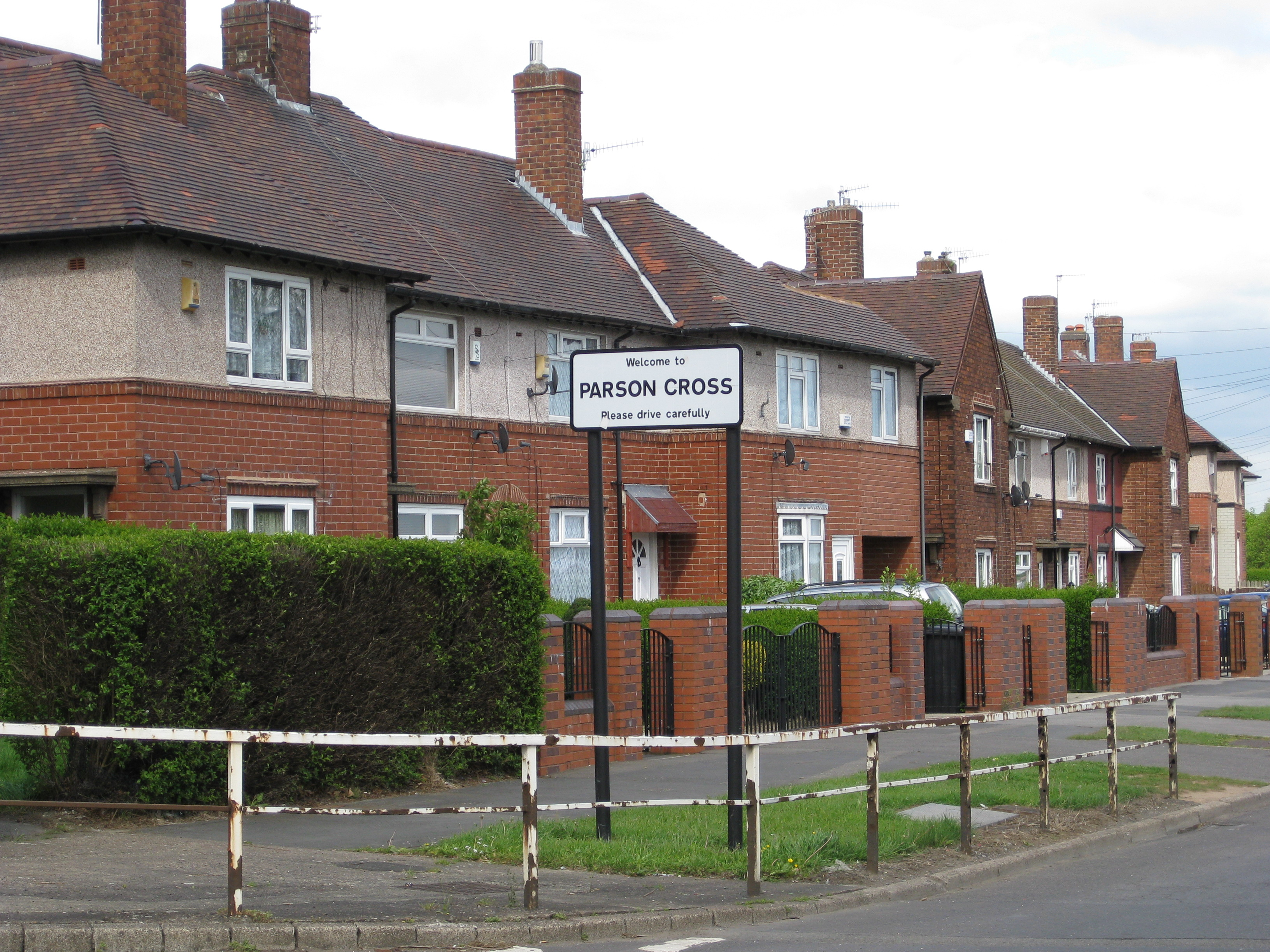 Chaucer Road, Parson Cross, Sheffield S5